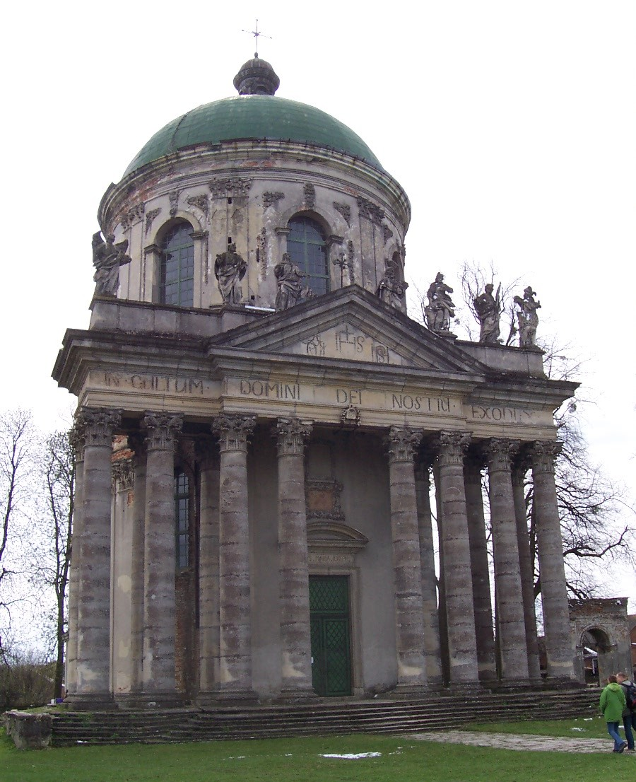 St. Joseph Church in Podhorce, Ukraine